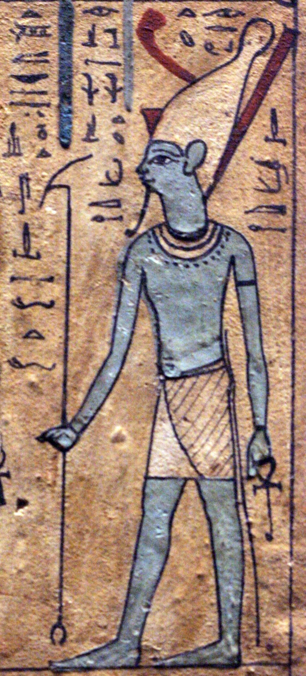 ArtistUnknownDescription First book of respirations of Usirur Current location (Inventory)Louvre Museum Native nameMusée du LouvreLocationParisCoordinates48° 51′ 37″ N, 2° 20′ 15″ E Established1793Website control : Q19675 VIAF: 257711507 ISNI: 0000 0001 2260 177X ULAN: 500125189 LCCN: n80020283 NLA: 35912436 WorldCat Sully Rez-de-chaussée Crypte d'Osiris Salle 13Accession numberN 3284ReferencesLouvre.frSource/PhotographerRama First book of respirations of Usirur